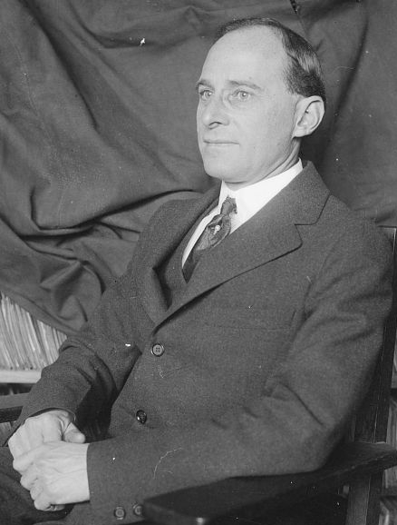 American poet Arthur Guiterman (1871-1943)